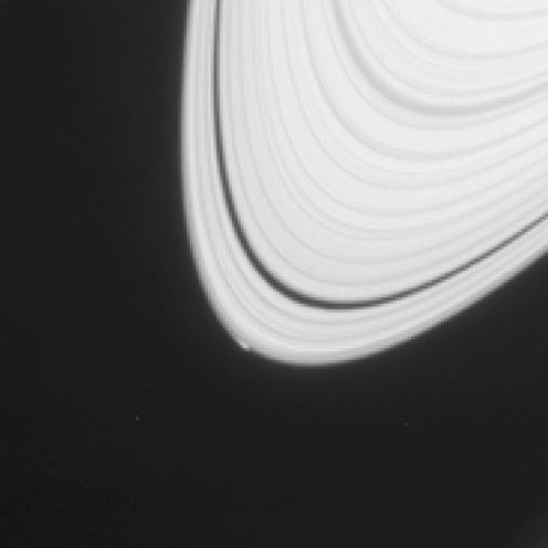 Commotion at Ring's Edge May Be Effect of Small Icy Object The disturbance visible at the outer edge of Saturn's A ring in this image from NASA's Cassini spacecraft could be caused by an object replaying the birth process of icy moons. The image is adapted from one in a paper in the journal Icarus, reporting the likely presence of an icy body causing gravitational effects on nearby ring particles, producing the bright feature visible at the ring's edge. The object, informally called "Peggy," is estimated to be no more than about half a mile, or one kilometer, in diameter. It may be in the process of migrating out of the ring, a process that one recent theory proposes as a step in the births of Saturn's several icy moons. This image is a portion of an observation recorded by the narrow-angle camera of Cassini's imaging science subsystem on April 15, 2013. The bright feature at the edge of the A ring is about 750 miles (about 1,200 kilometers) long. This view looks toward the illuminated side of the rings from about 53 degrees above the plane of the rings. It was obtained from a distance of approximately 775,000 miles (1.2 million kilometers) from Saturn, with a sun-Saturn-spacecraft, or phase, angle of 31 degrees. The scale is about 4 miles (about 7 kilometers) per pixel. The Cassini-Huygens mission is a cooperative project of NASA, the European Space Agency and the Italian Space Agency. NASA's Jet Propulsion Laboratory, a division of the California Institute of Technology in Pasadena, manages the mission for NASA's Science Mission Directorate, Washington. The Cassini orbiter and its two onboard cameras were designed, developed and assembled at JPL. The imaging operations center is based at the Space Science Institute in Boulder, Colo. For more information about the Cassini-Huygens mission visit and The Cassini imaging team homepage is at